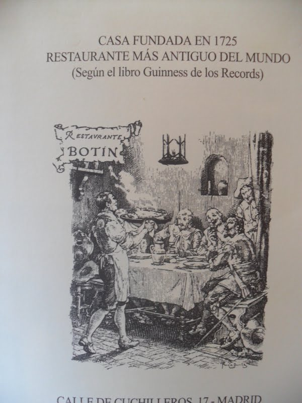 The oldest restaurant in the world - Calle de Cuchilleros, 17, 28005 Madrid, Španělsko